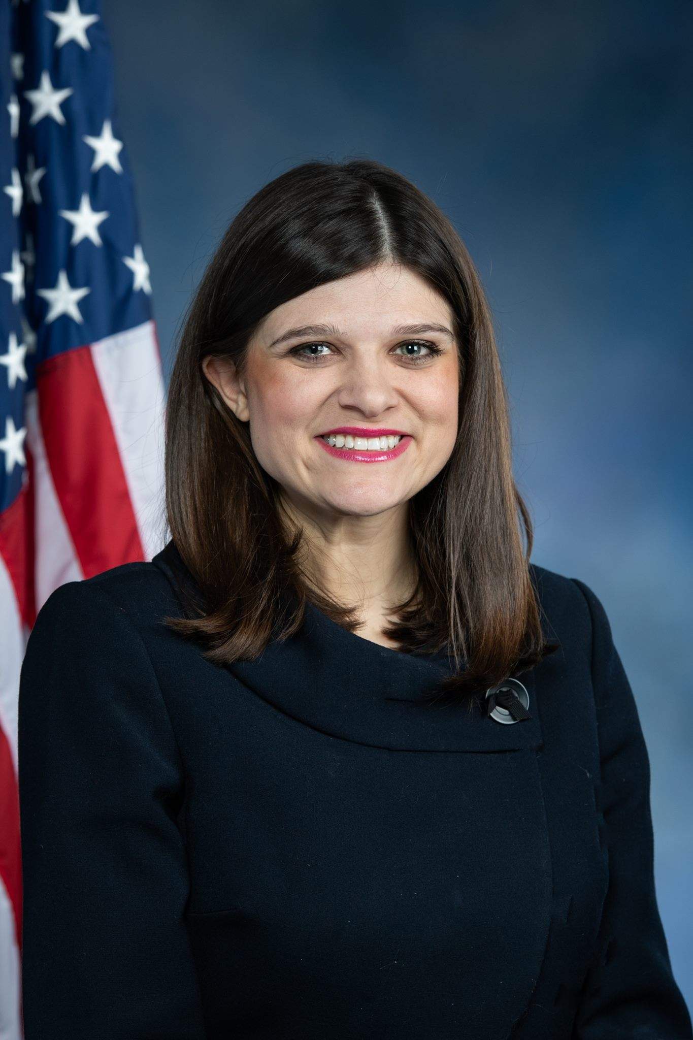 The official headshot of Rep. Haley Stevens (D-MI)